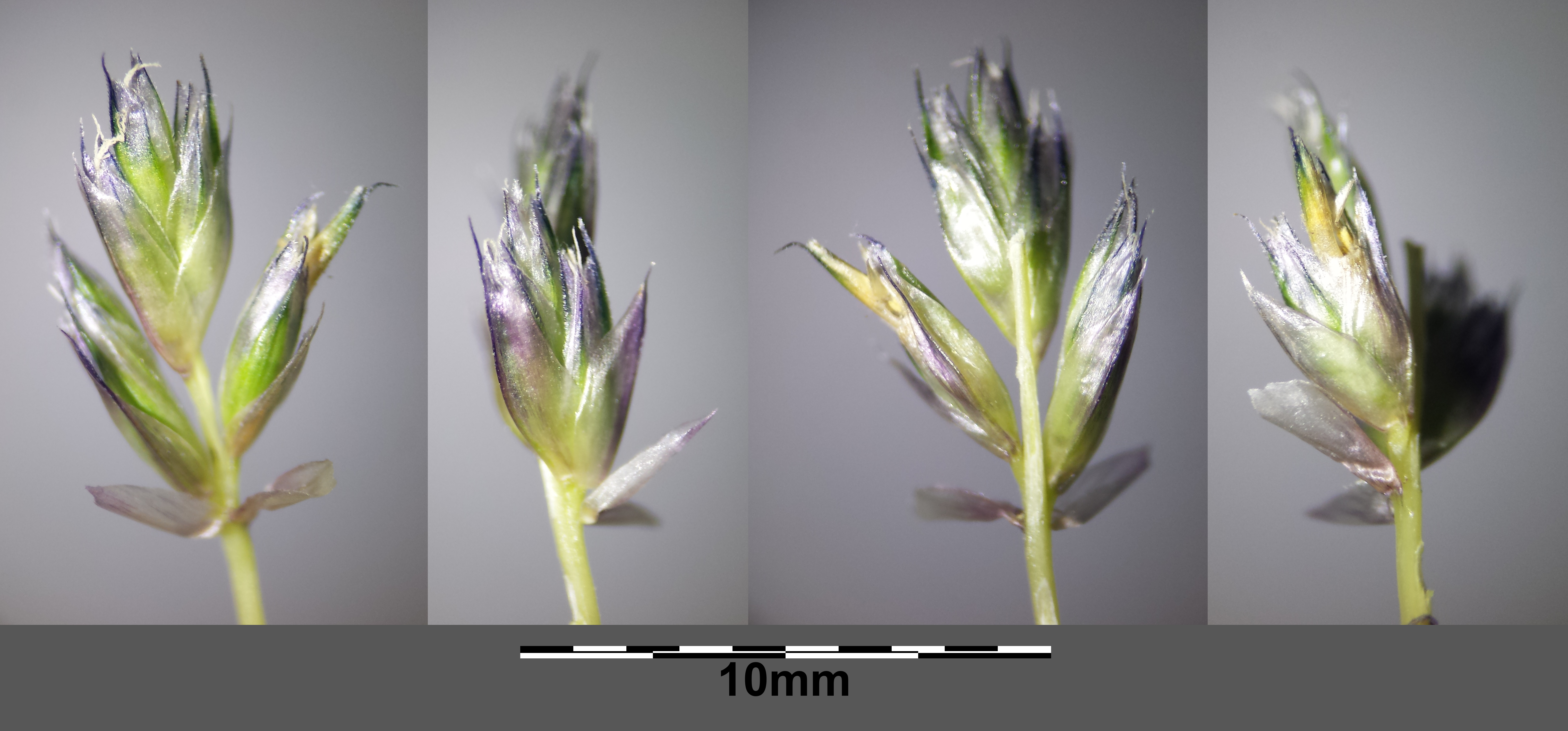 Branch of panicle with spikelets Taxonym: Sesleria caerulea s. str. ss Fischer et al. EfÖLS 2008 ISBN 978-3-85474-187-9 Location: Mödlinger Klause, district Mödling, Lower Austria - ca. 300 m a.s.l. Habitat: rock steppe